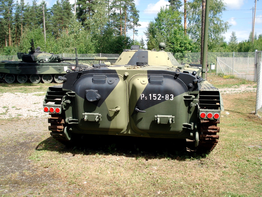 Soviet-manufactured Finnish BMP-1 IFV, displayed at Parola Tank Museum. Photo taken on July 14, 2006. Source: Photo by me, User:Balcer.